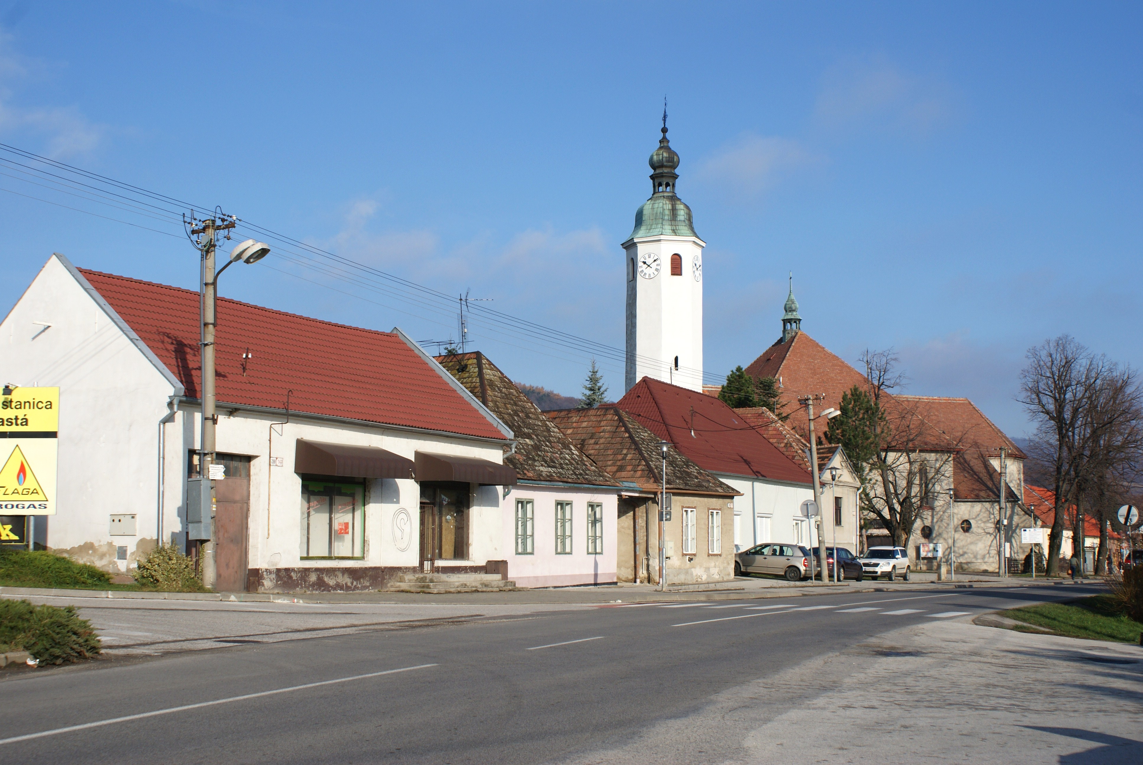 Častá, a village in Pezinok District, Slovakia, a view from the common towards the church.